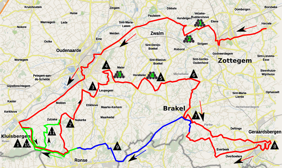 Map of the Ronde van Vlaanderen men 2019, first part.